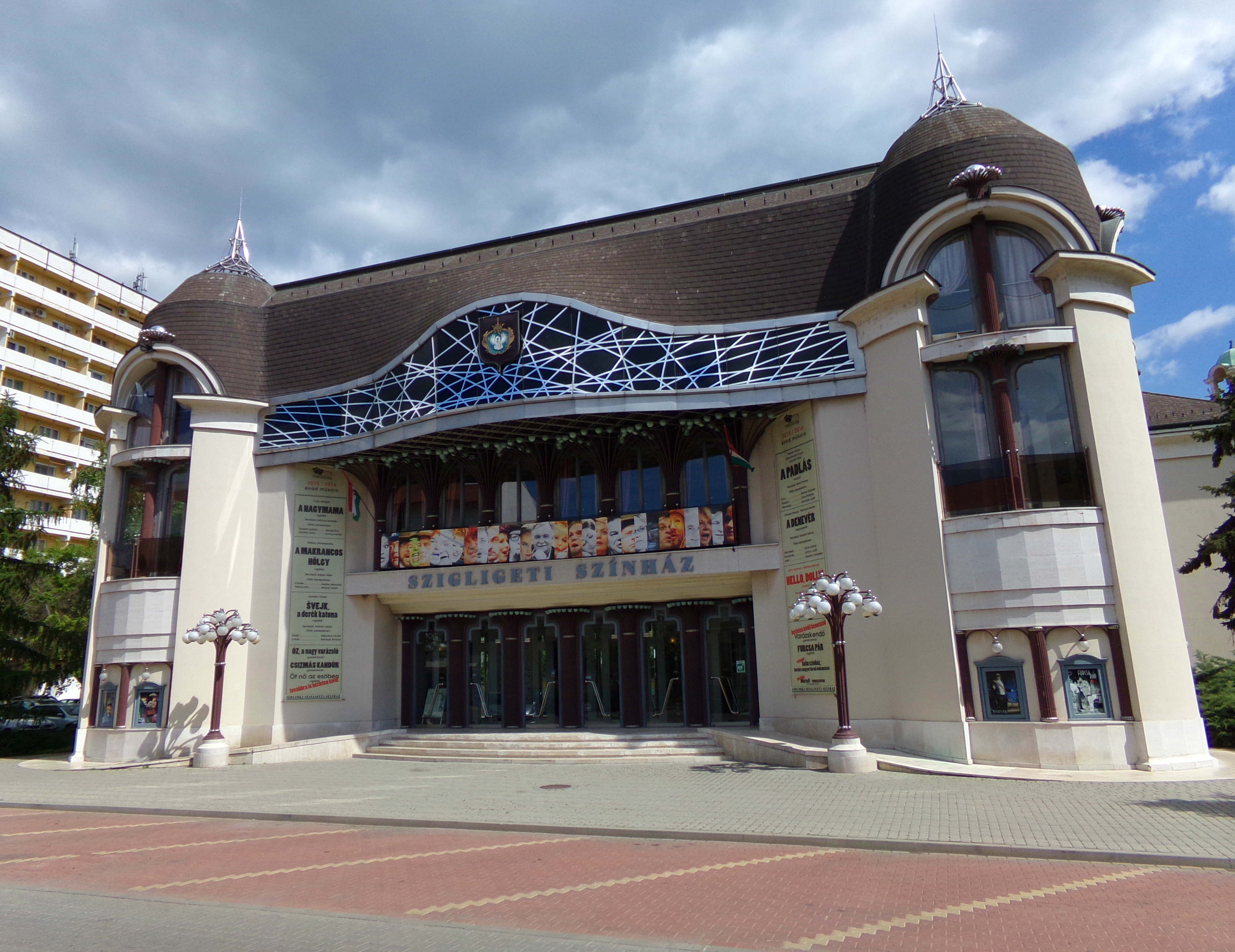 The Szigligeti Theater in Szolnok